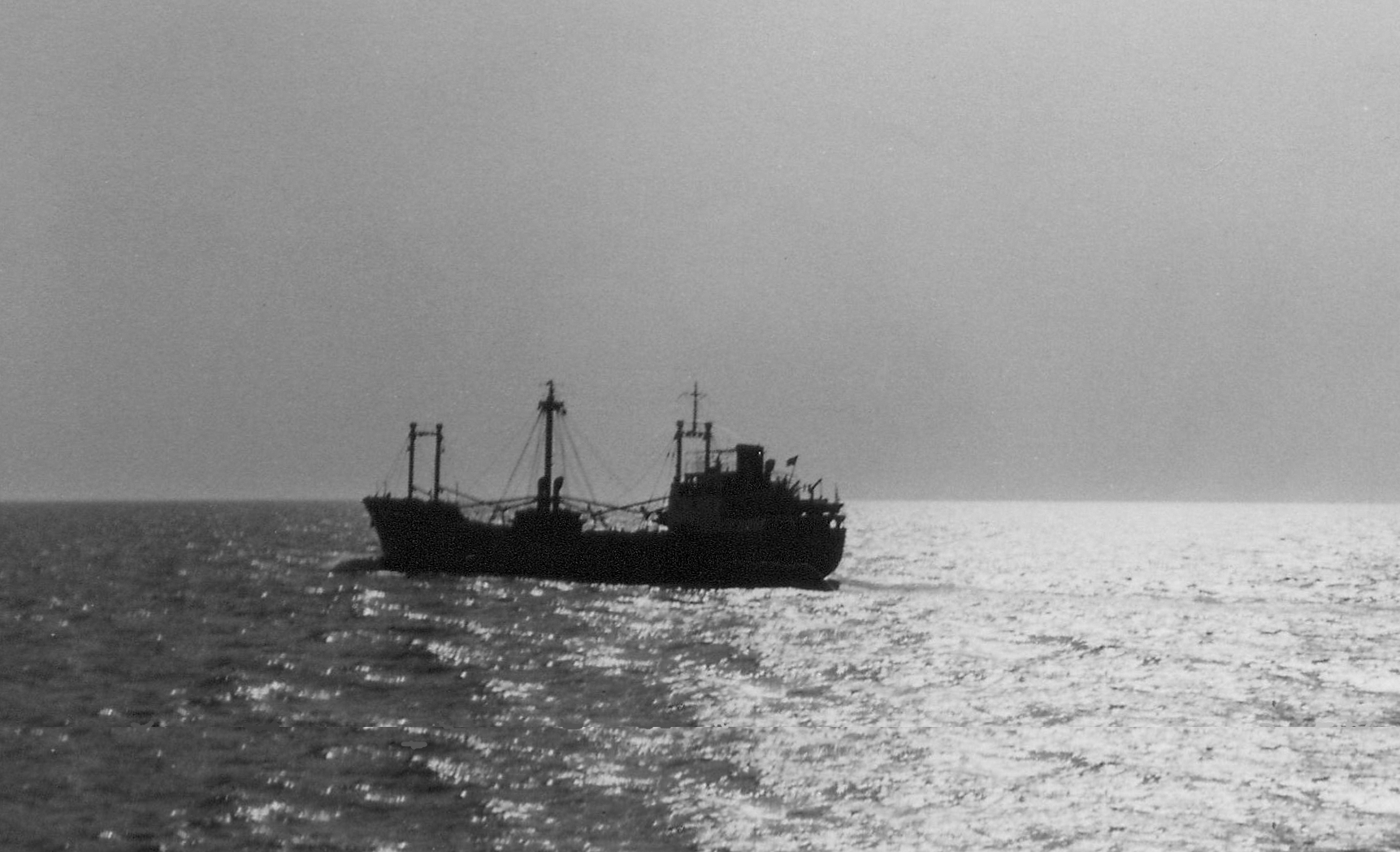 MS ANNEMARIE in the Bay of Biscay on the trip to West Africa